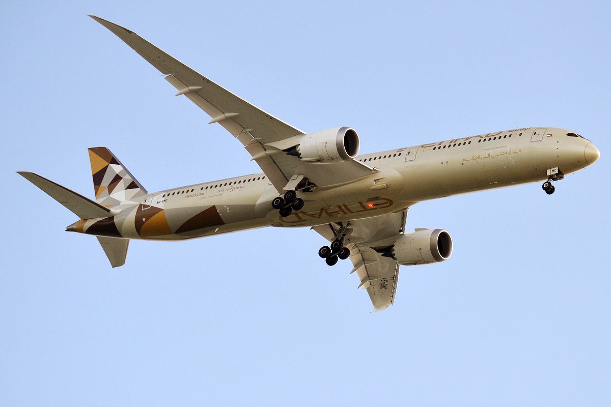 Etihad Airways, A6-BMC, Boeing 787-10 Dreamliner